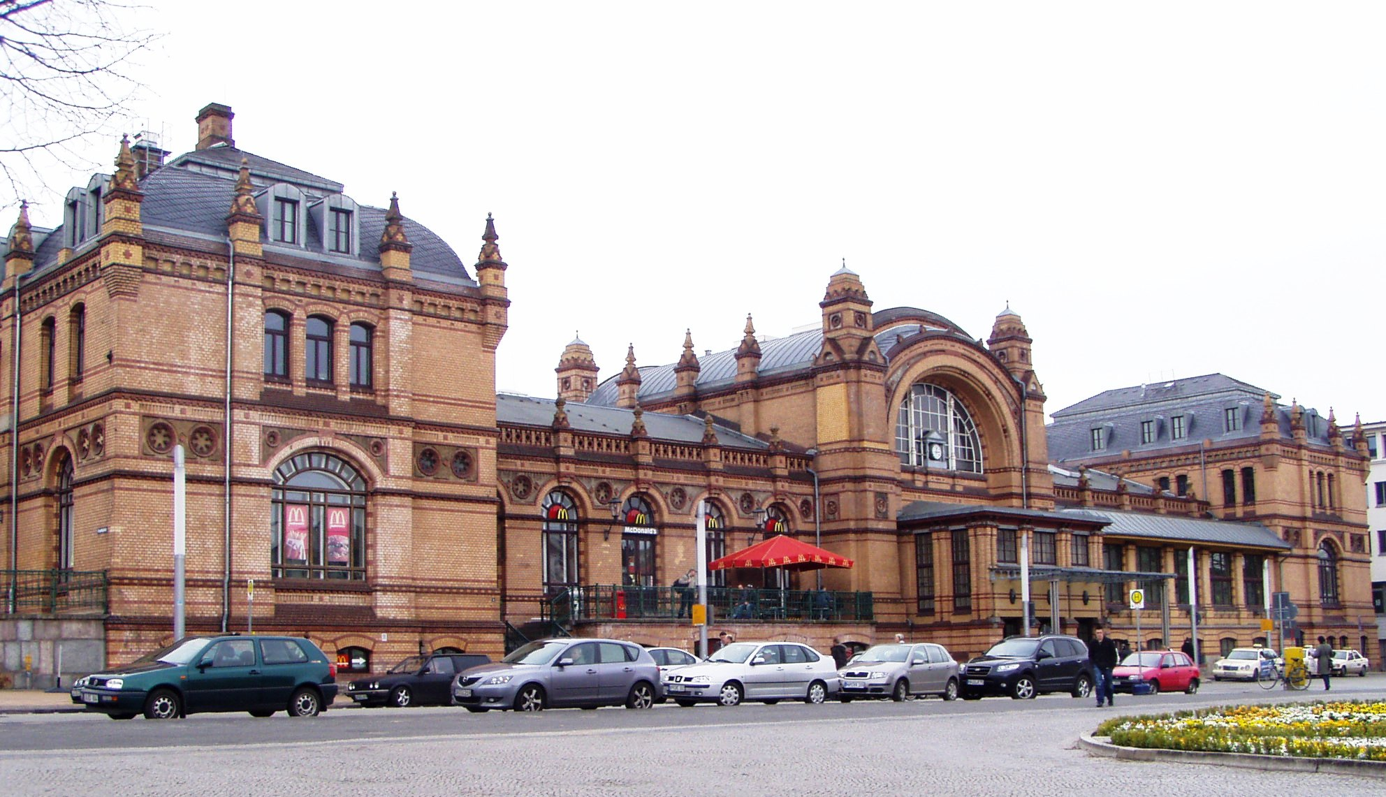 Central Station of Schwerin